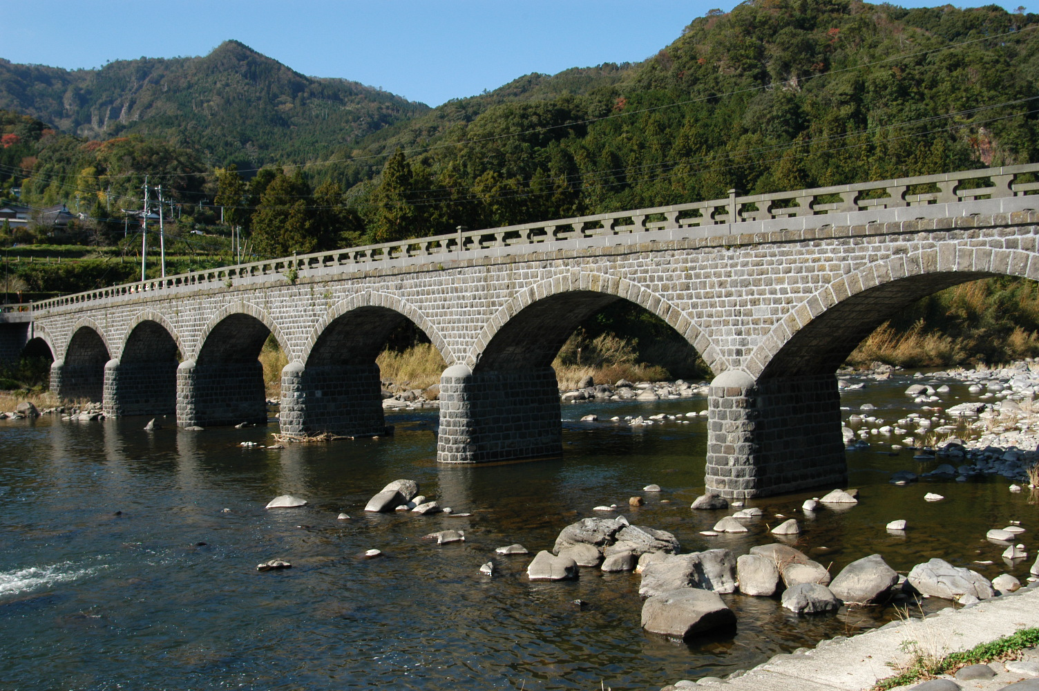 Yabakei Bridge, also known as the Dutch Bridge, is a stone arch bridge in Nakatsu, Oita, Japan